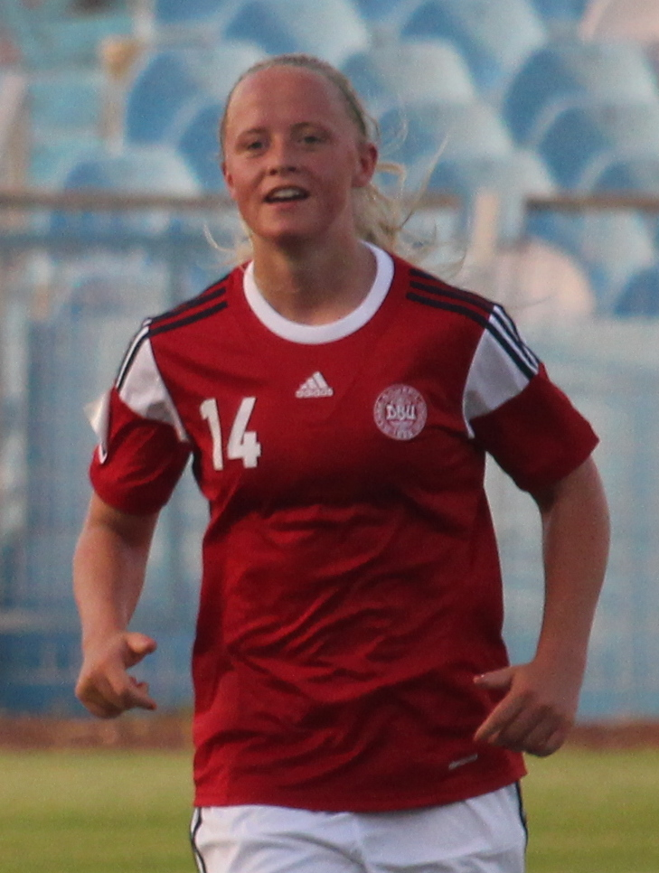 Karoline Smidt Nielsen. Israel - Denmark, 2015 FIFA Women's World Cup qualification UEFA Group 3, 19 June 2014.